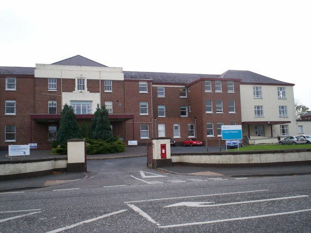 Lurgan Hospital, Sloan Street, Lurgan This hospital was originally the Lurgan Workhouse. In 1929 it became Lurgan and Portadown District Hospital. Since 1972, when Craigavon Hospital was built, it became known as Lurgan Hospital.